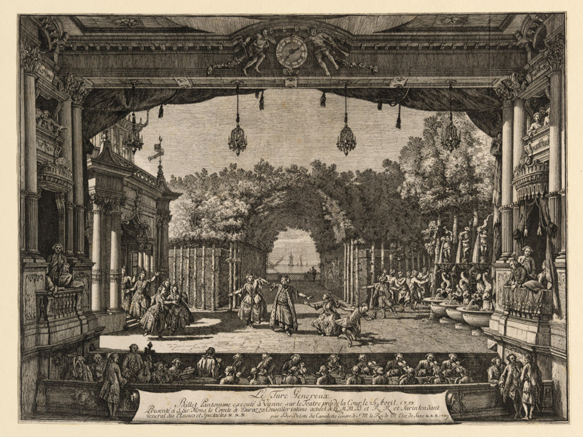 The Generous Turk, Pantomime Ballet performed in Vienna at the Court Theater, 1758. Etching on paper by Bernaro Bellotto. Plate: 46.5 x 62.1 cm Ballet was staged by Franz Hilverding to the music of Joseph Starzer in honor of the visit of the Turkish envoy to the Austrian court. Joseph Starzer, composer, is seating at the harpsichord while count Giacomo Durazzo, the director of the theater, is standing in the box at right.